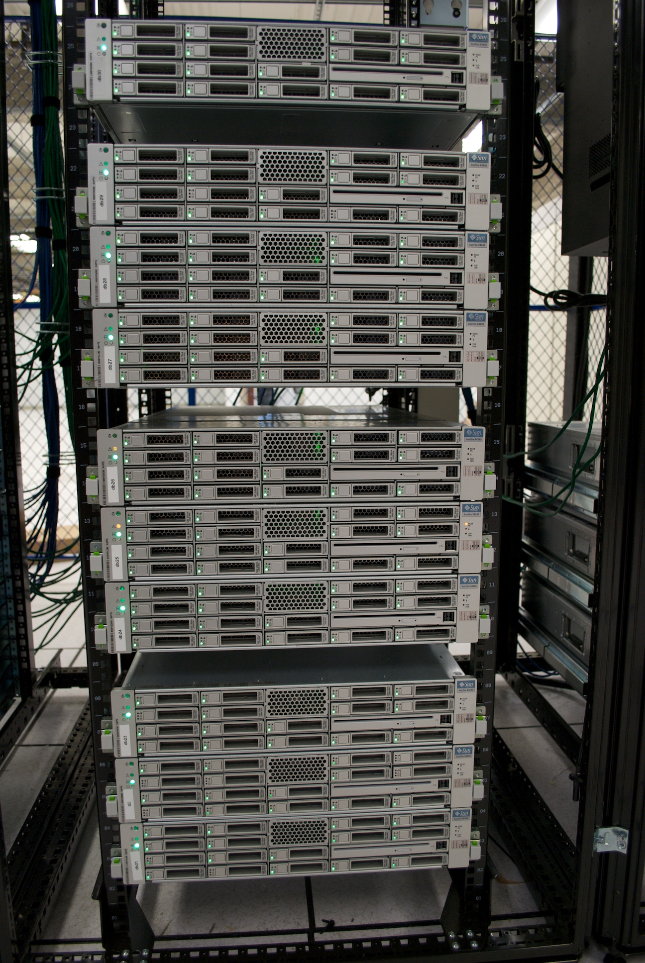 Photos of the Wikimedia Server cluster in the sdtpa facility.